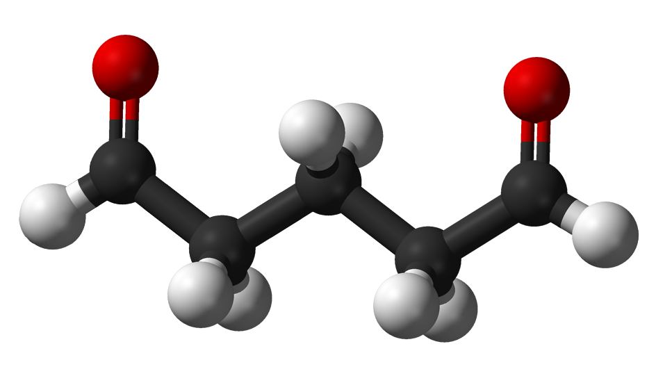 Ball-and-stick model of the glutaraldehyde molecule.